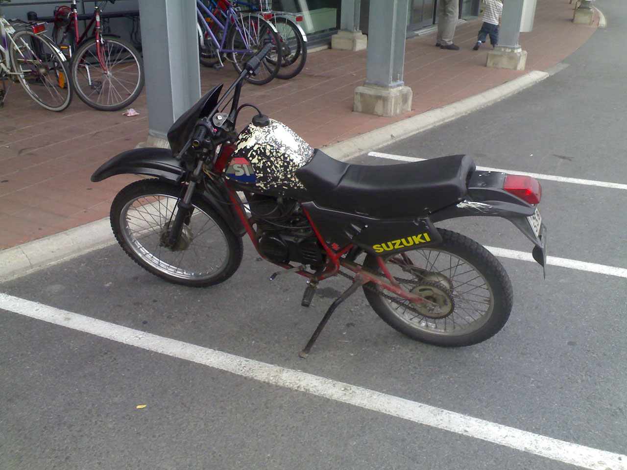 Suzuki S1, 50 cc moped (seems to be "tuned" by owner).